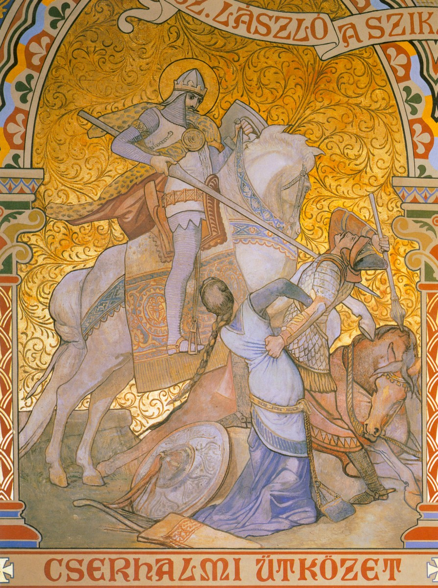 Fresco of St. Ladislaus in the Matyás Church in Budapest